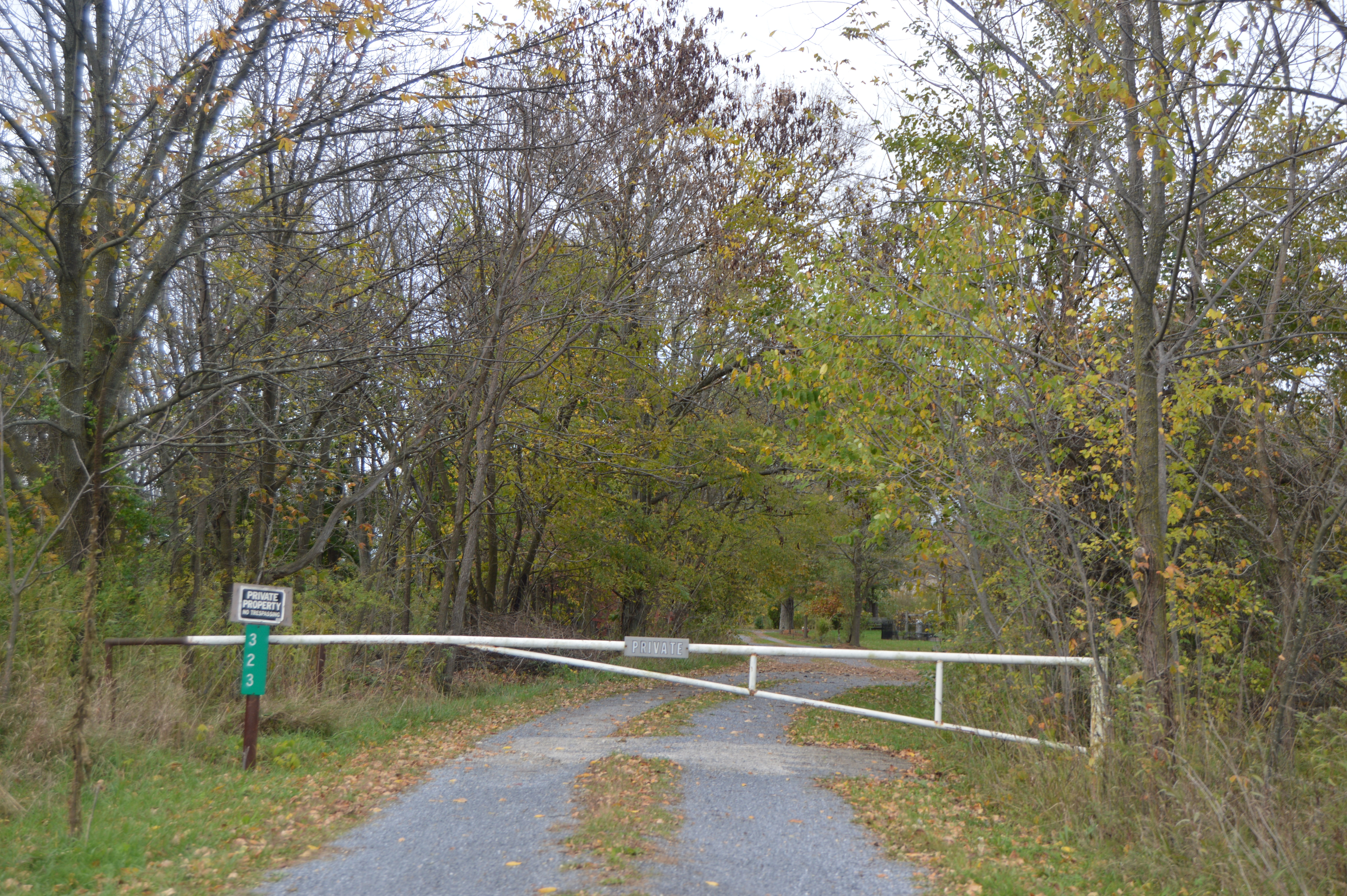 Gateway to Cold Spring Farm, located at 323 Lions Park Drive immediately northeast of McConnellsburg in Todd Township, Fulton County, Pennsylvania, United States. The farmstead is listed on the National Register of Historic Places.